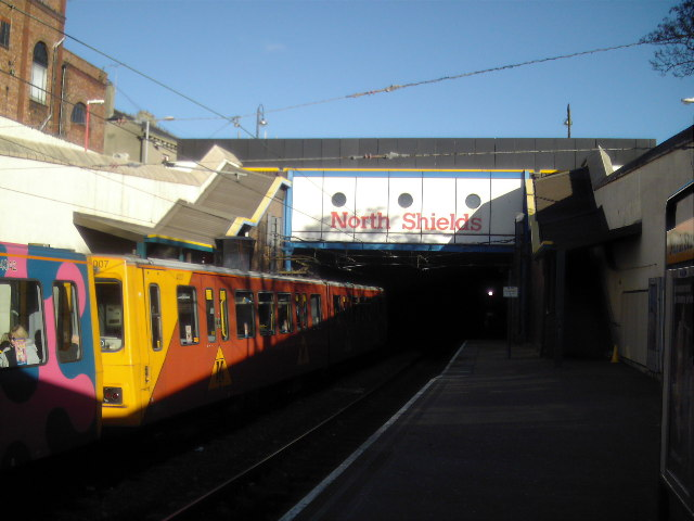 North Shields Metro Station. View from platform.